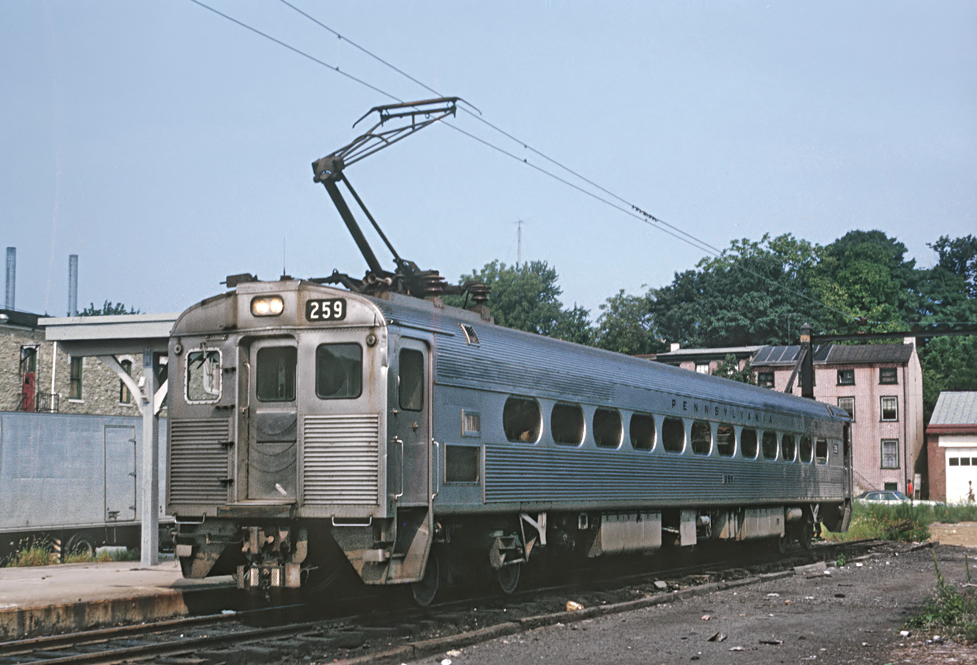 Penn Central Silverliner II #259 at West Chester in August 1970